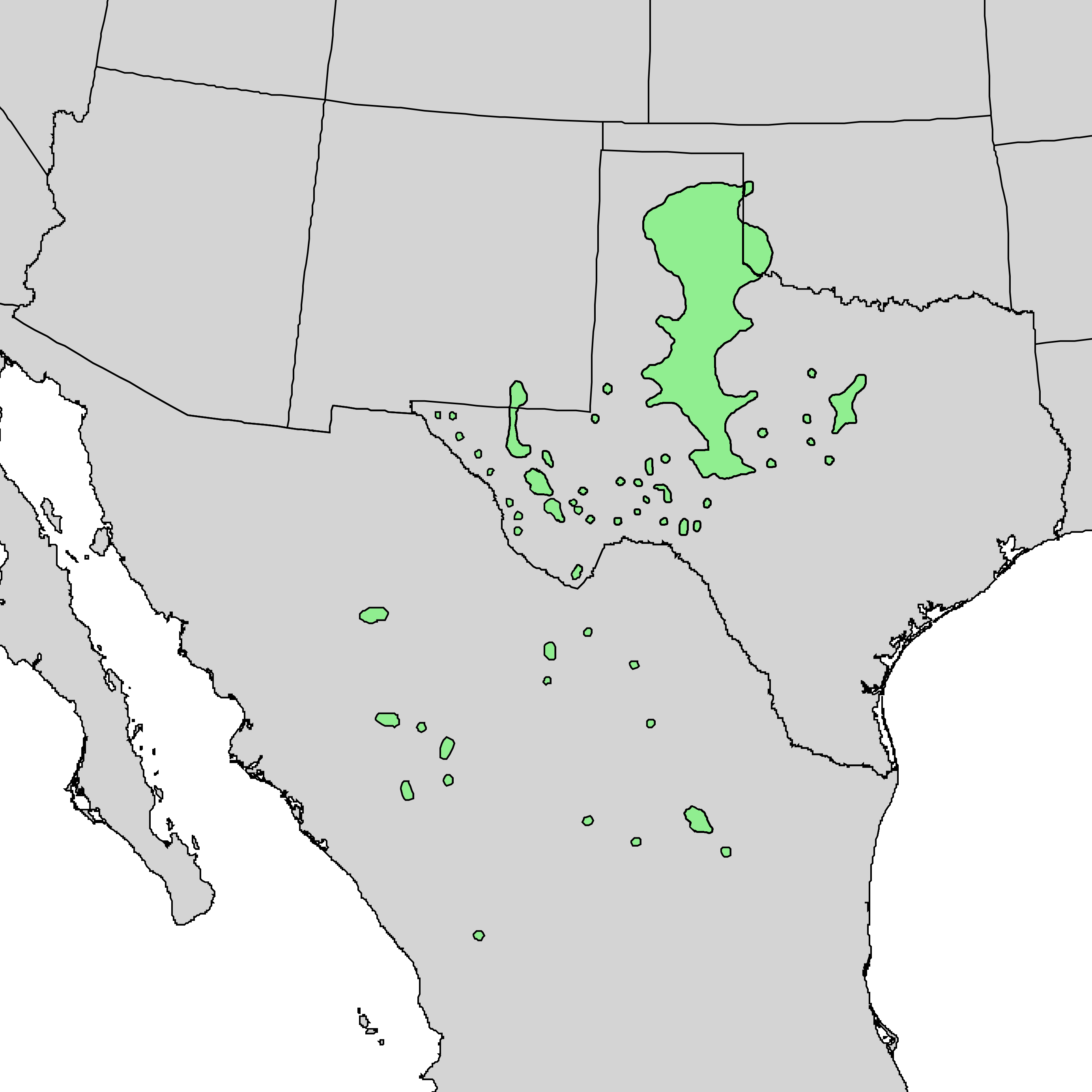 Natural distribution map for Juniperus pinchotii (Pinchot juniper), including population from (syn.) Juniperus erythrocarpa map